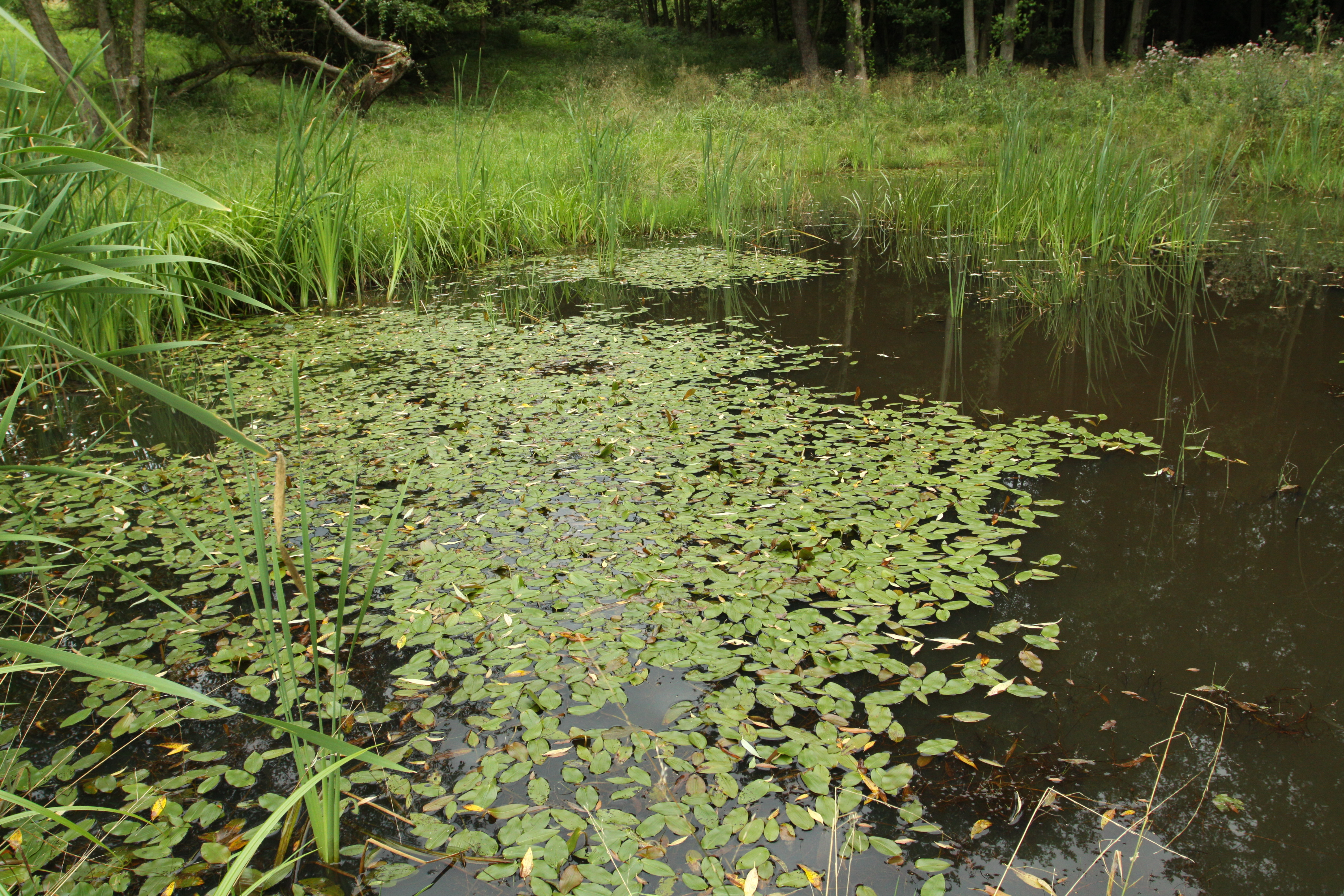 Persicaria amphibia in nature reserve Libouchecké rybníčky close to Libouchec village in Ústí nad Labem District, Czech Republic